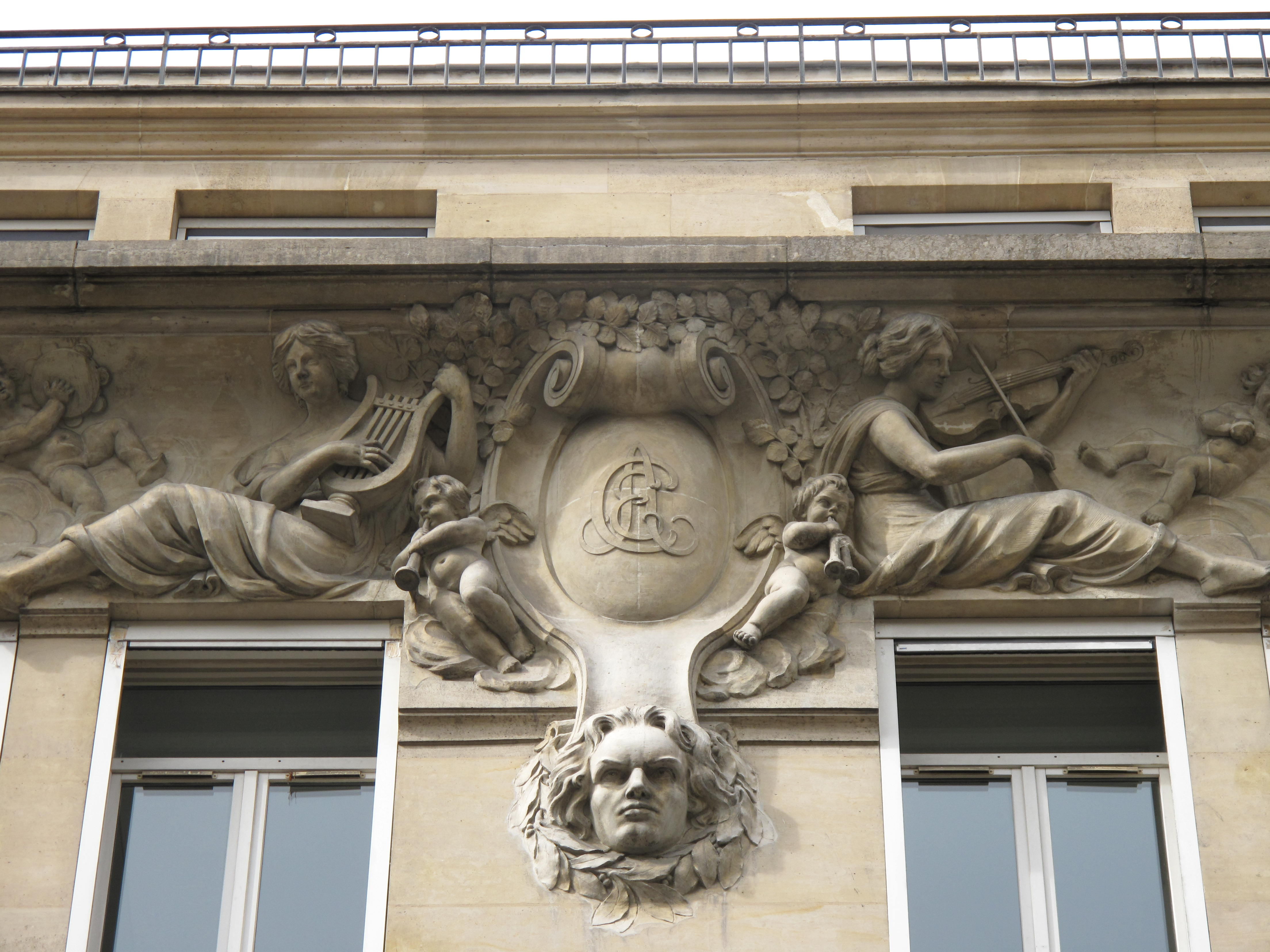 Detail of the facade of the building where was installed the SACEM (french association for the defense of the rights of the artists). With a mascaron representing Beethoven : 10 rue Chaptal, Paris 9th arr.